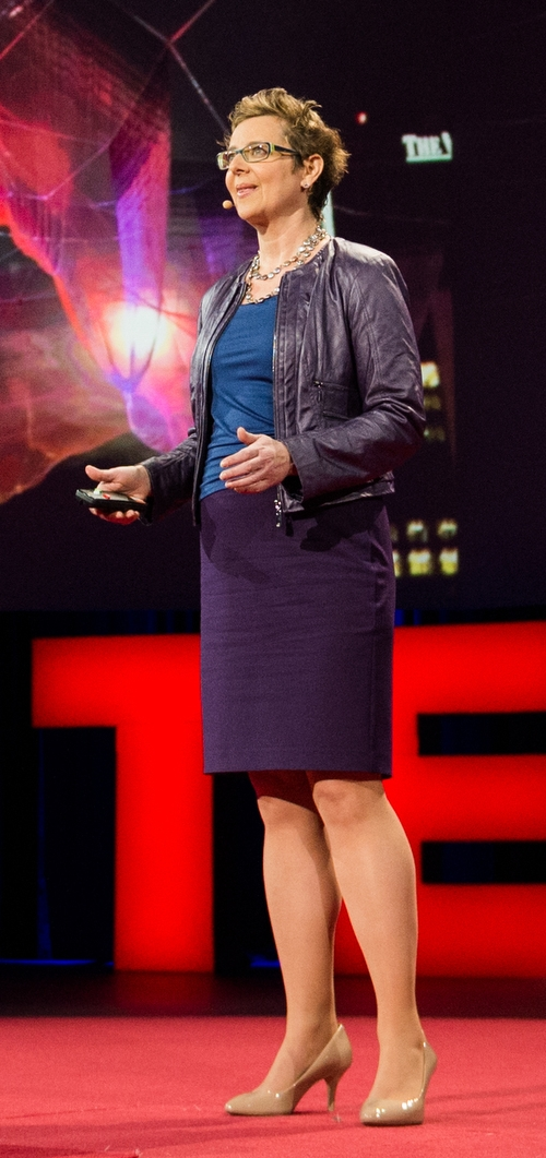 Janet Echelman at TED2014, Session One - Liftoff! - The Next Chapter, March 17-21, 2014, Vancouver Convention Center, Vancouver, Canada. Photo: James Duncan Davidson